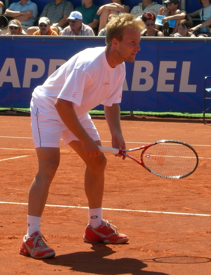 Christophe Rochus @ Stuttgart 2006